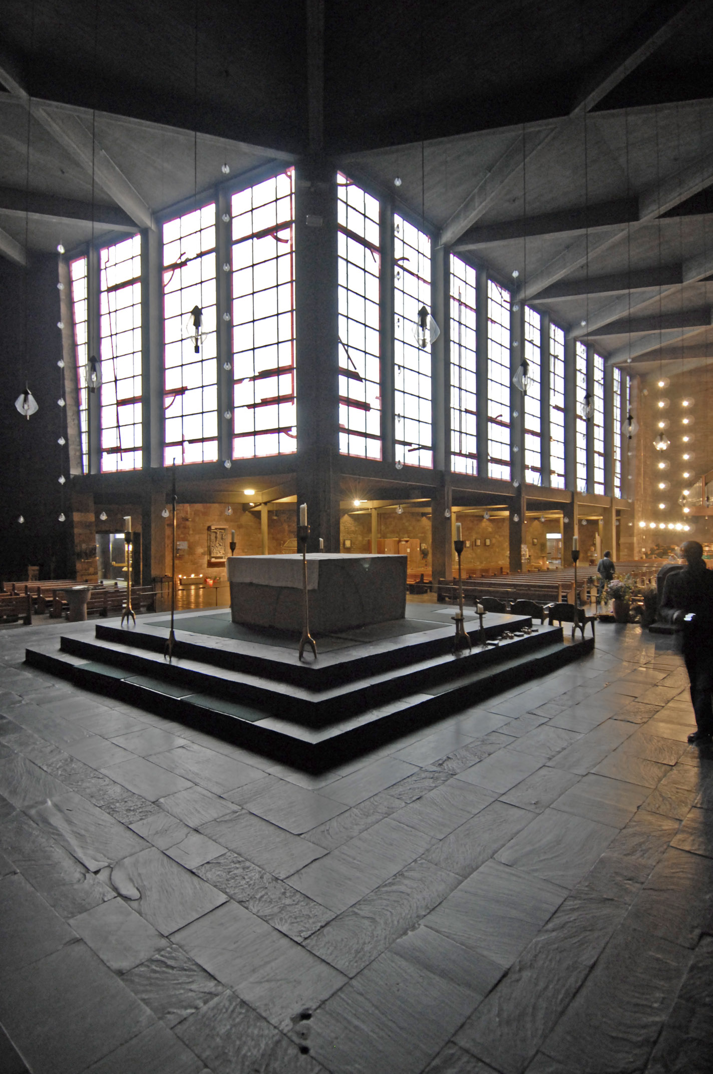 Church St. Anna in Düren by Architect Rudolf Schwarz, interior